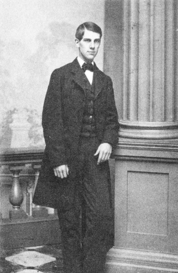 Oliver Wendell Holmes, Jr. (1841-1935).